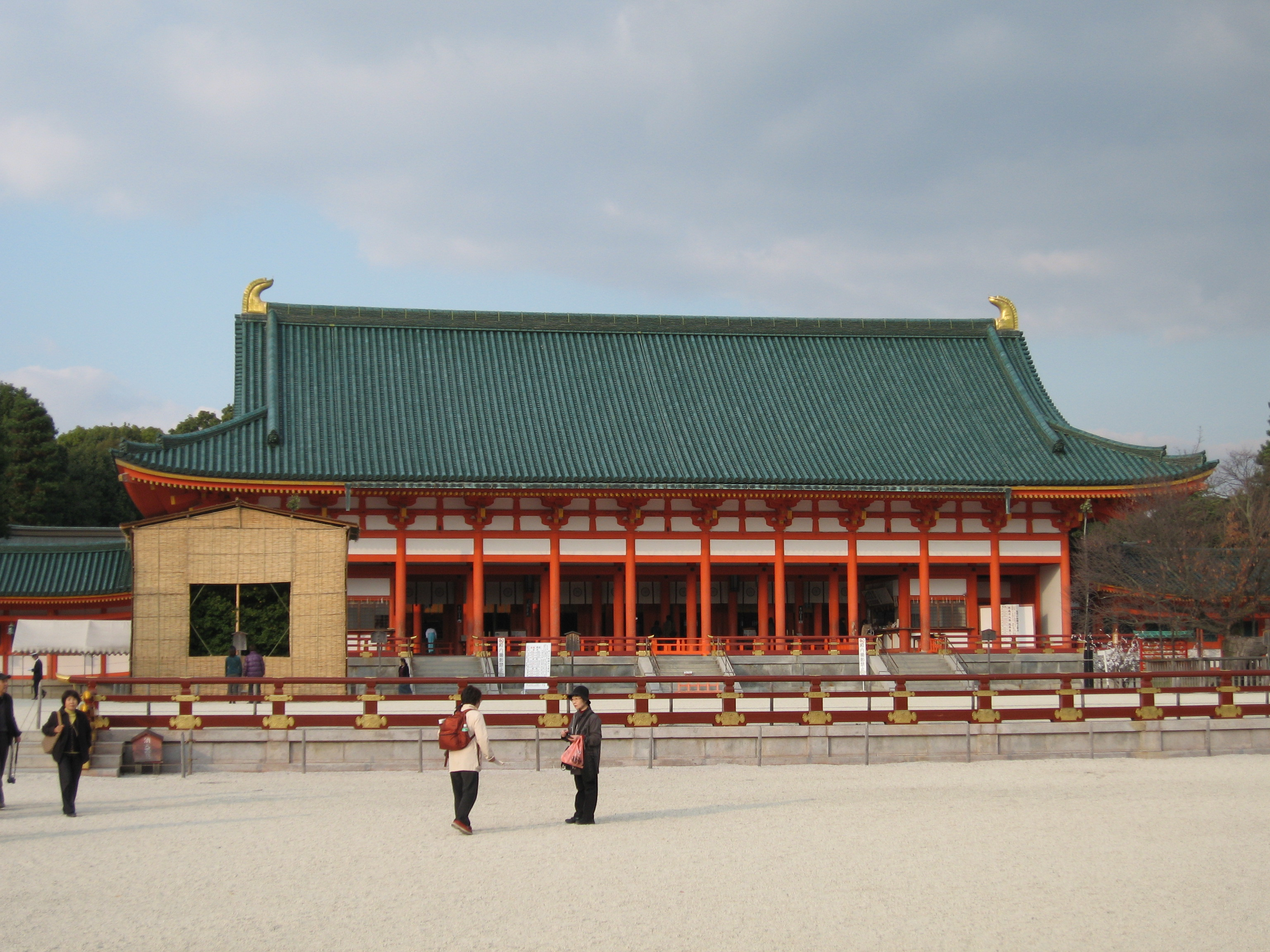 Daigokuden (大極殿) hall in the Heian Jingu Shrine in Kyoto